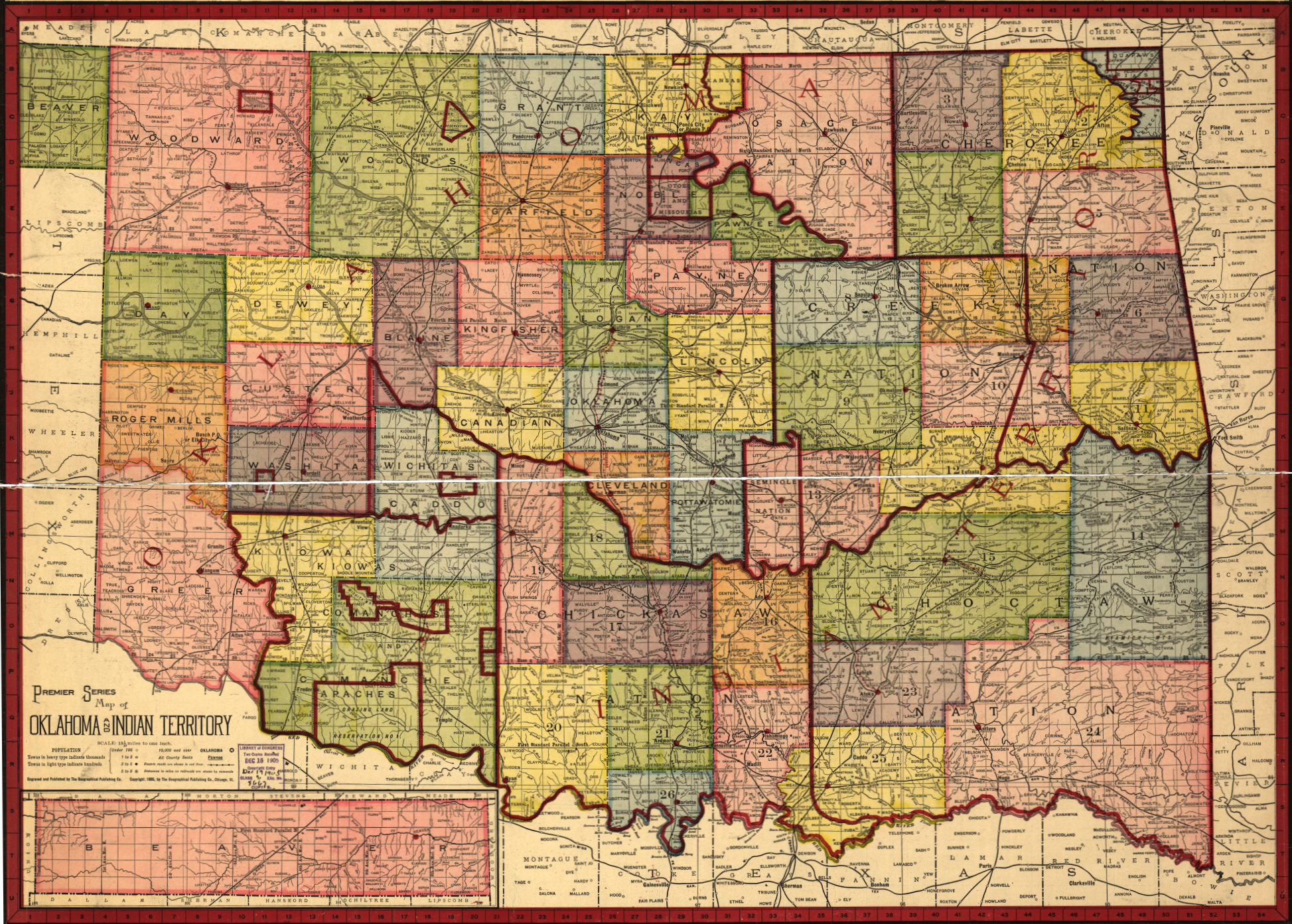 1905 map of Oklahoma and Indian territories